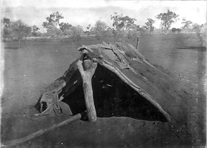 Aboriginal dugout, Tinnenburra Station, south of Cunnamulla, Queensland. Original title: "Blacks' Dugout, Tinnenburra."